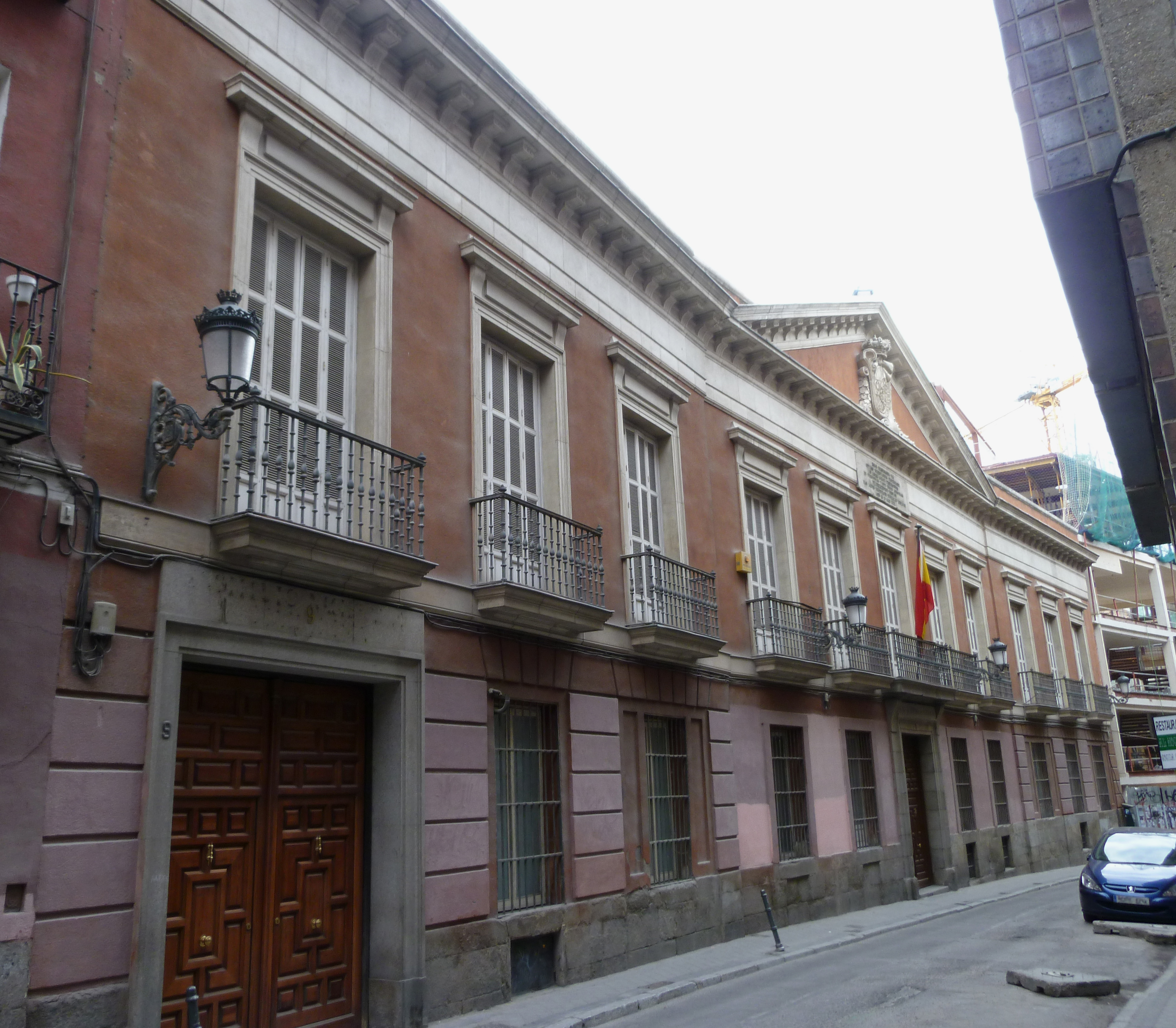 The headquarters of the Royal Academy of Pharmacy of Spain, at 9-11 Calle de la Farmacia (street) in Centro district in Madrid. Building was designed in 1827 by Pedro de Zengotita Vengoa and built between 1827 and 1830.